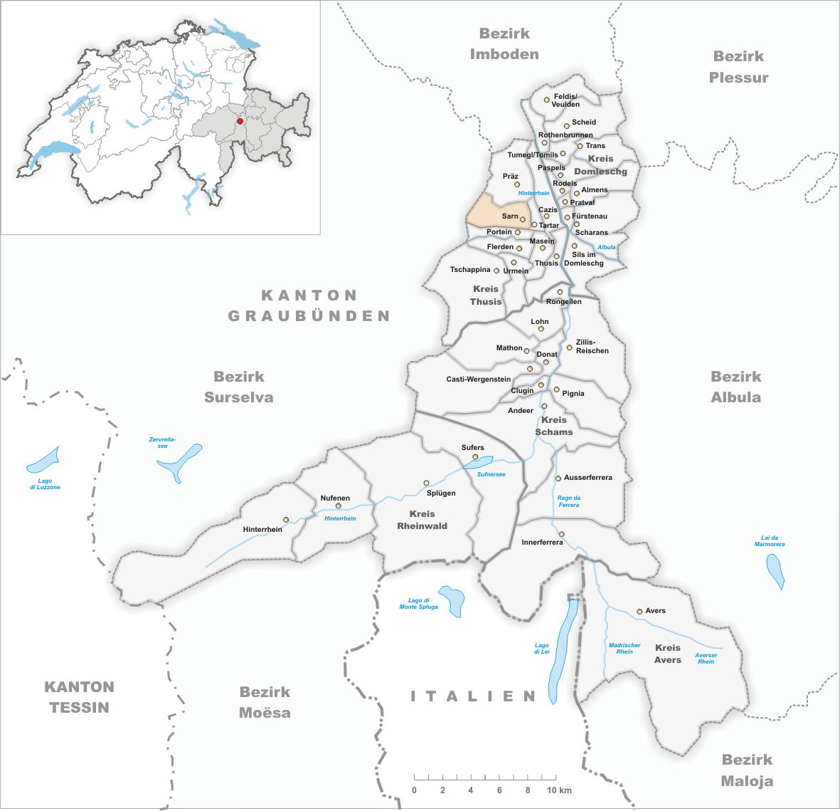 Municipality Sarn